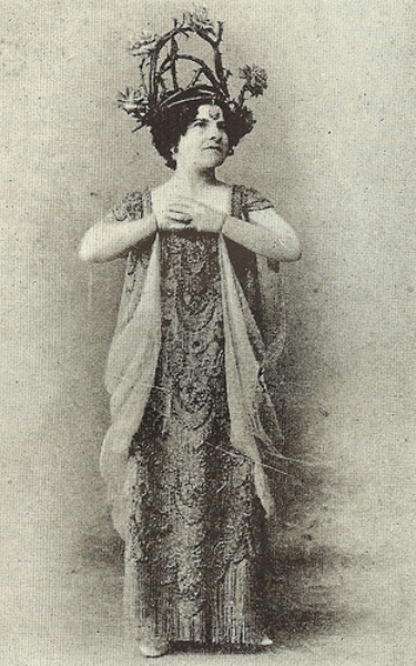 Portuguese actress Adelina Abranches in costume for the final act of the révue À Procura do Badalo.